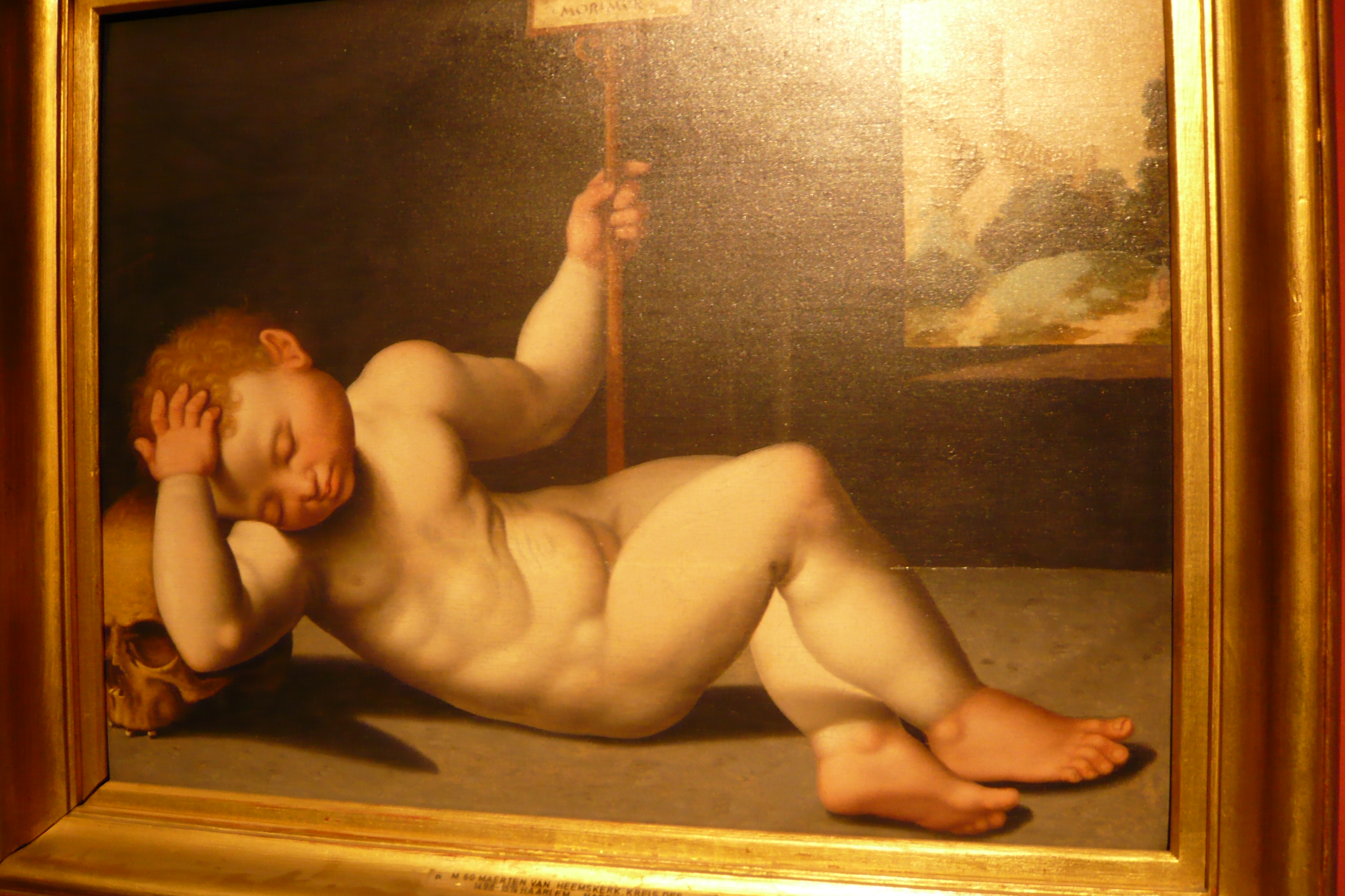 Painting of baby with skull. This type of painting is known as a "Nascendo Morimur”, which could be translated as ‘As we are born, we die”. This was a popular theme in Flanders and Germany during the 16th century.